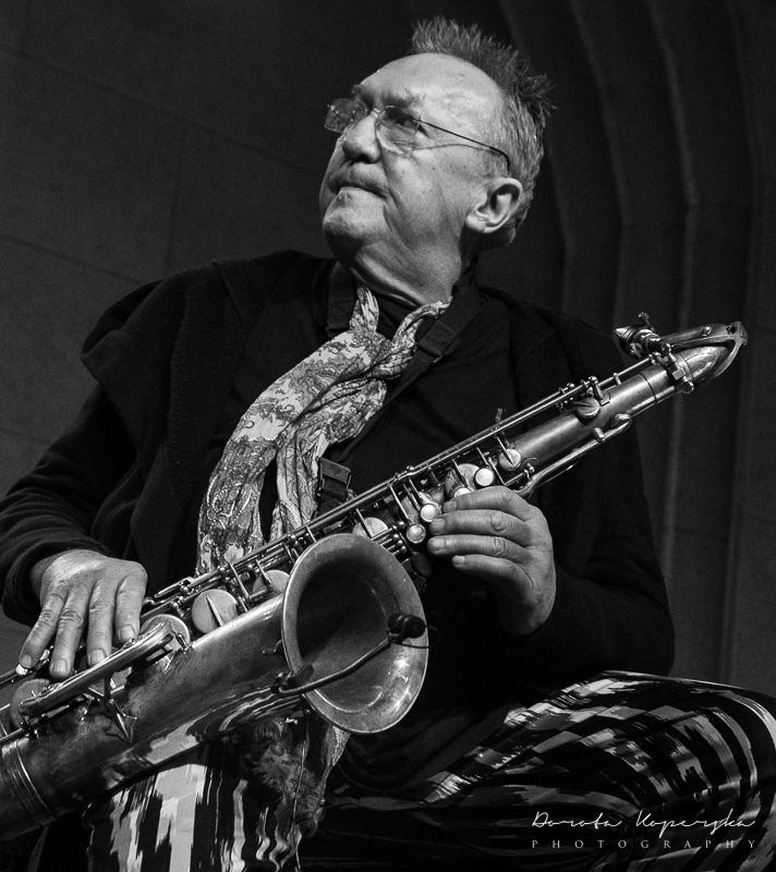 Michał Urbaniak (born January 22, 1943) is a Polish jazz musician who plays violin, lyricon, and saxophone. His music includes elements of folk music, rhythm and blues, hip hop, and symphonic music. Concert on March 5, 2019 at the Guido Mine, Zabrze as part of the LOTOS Jazz Festival at 21. Bielska Zadymka Jazzowa.